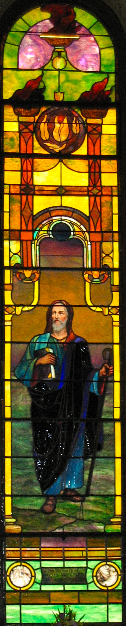 Zion Church's window "St. Paul"